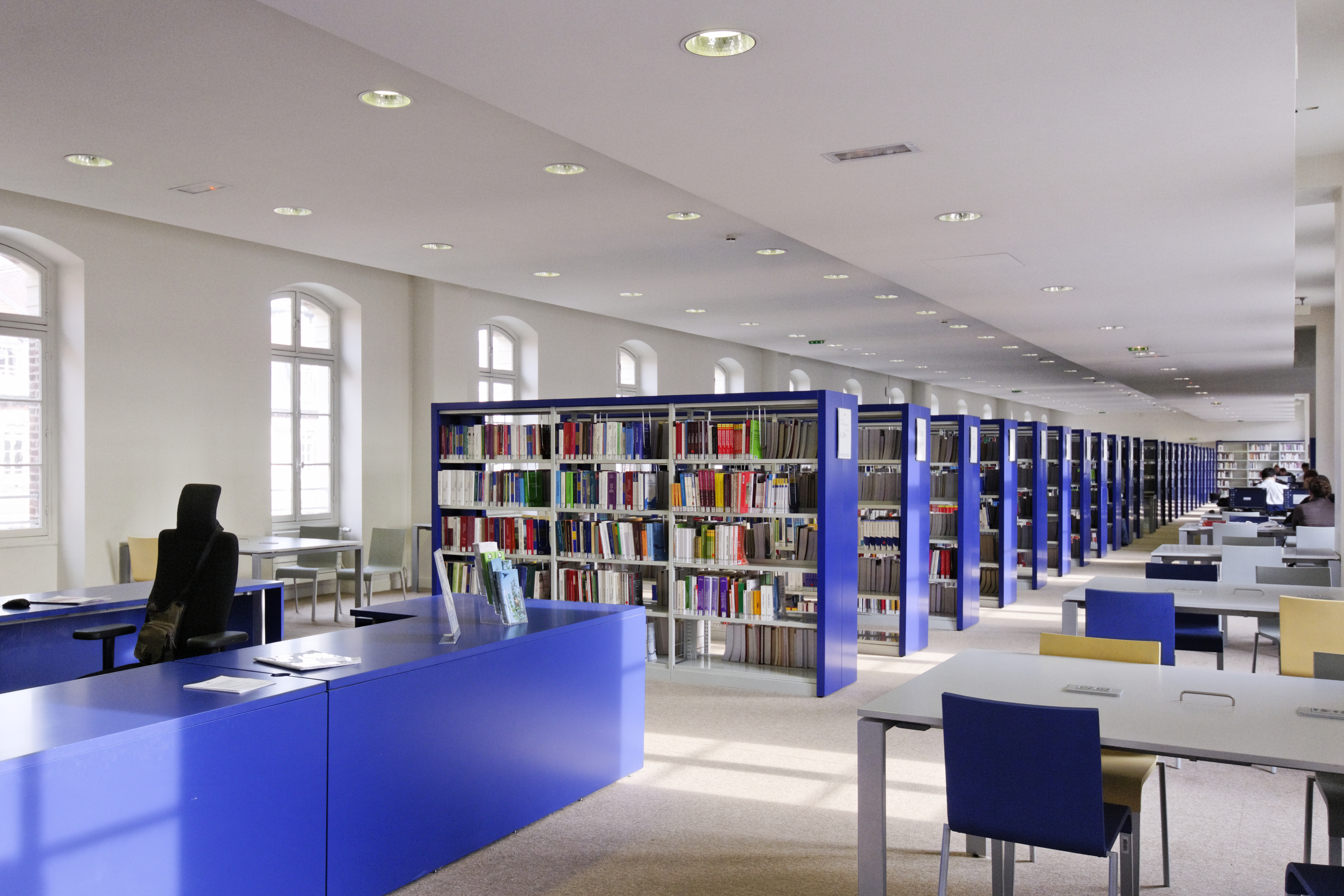 A reading room of the Sainte-Barbe library, Paris.